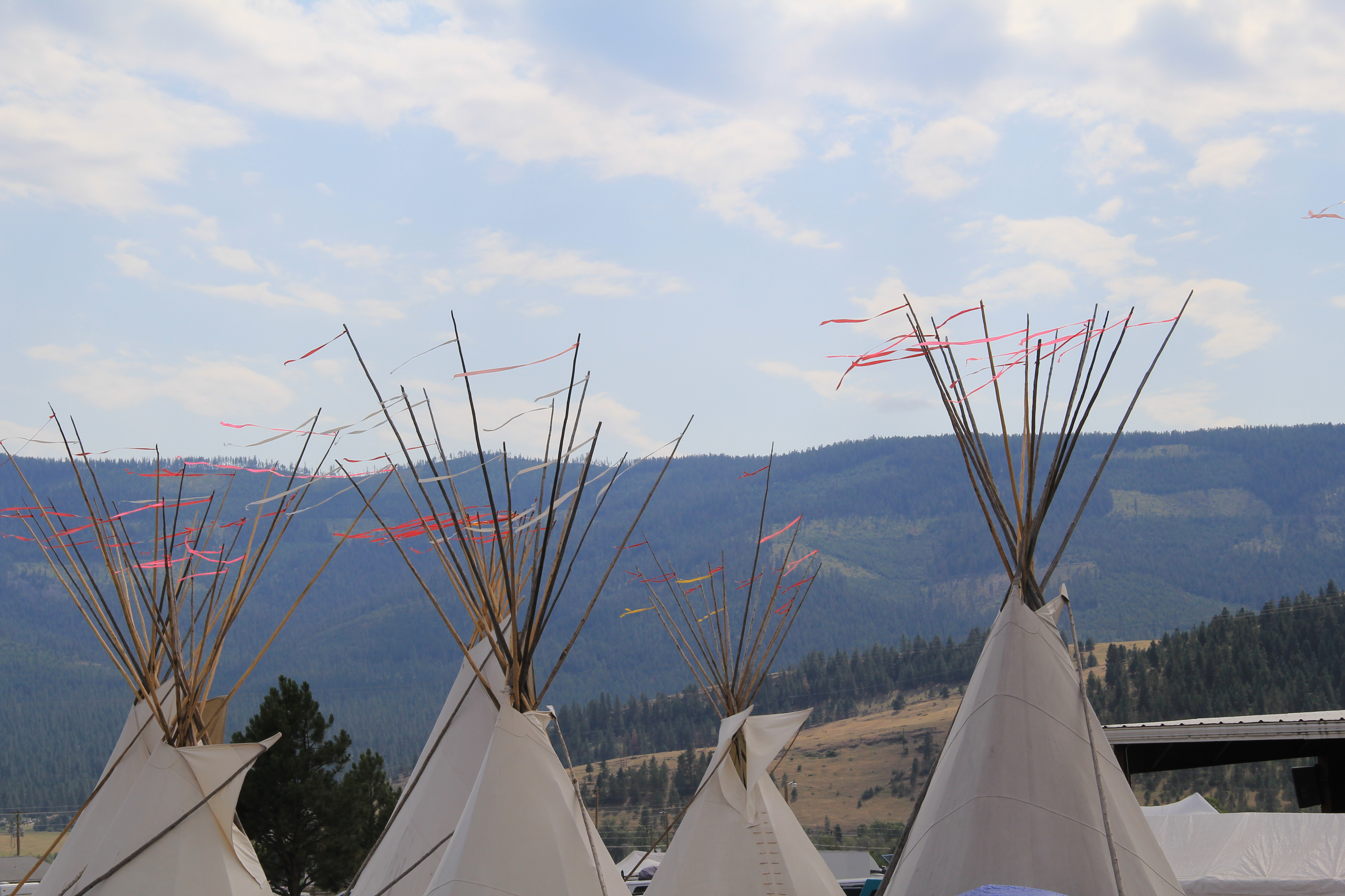 Tipis at Arlee Celebration Pow Wow 2015, in Arlee, Montana. July 6, 2015.